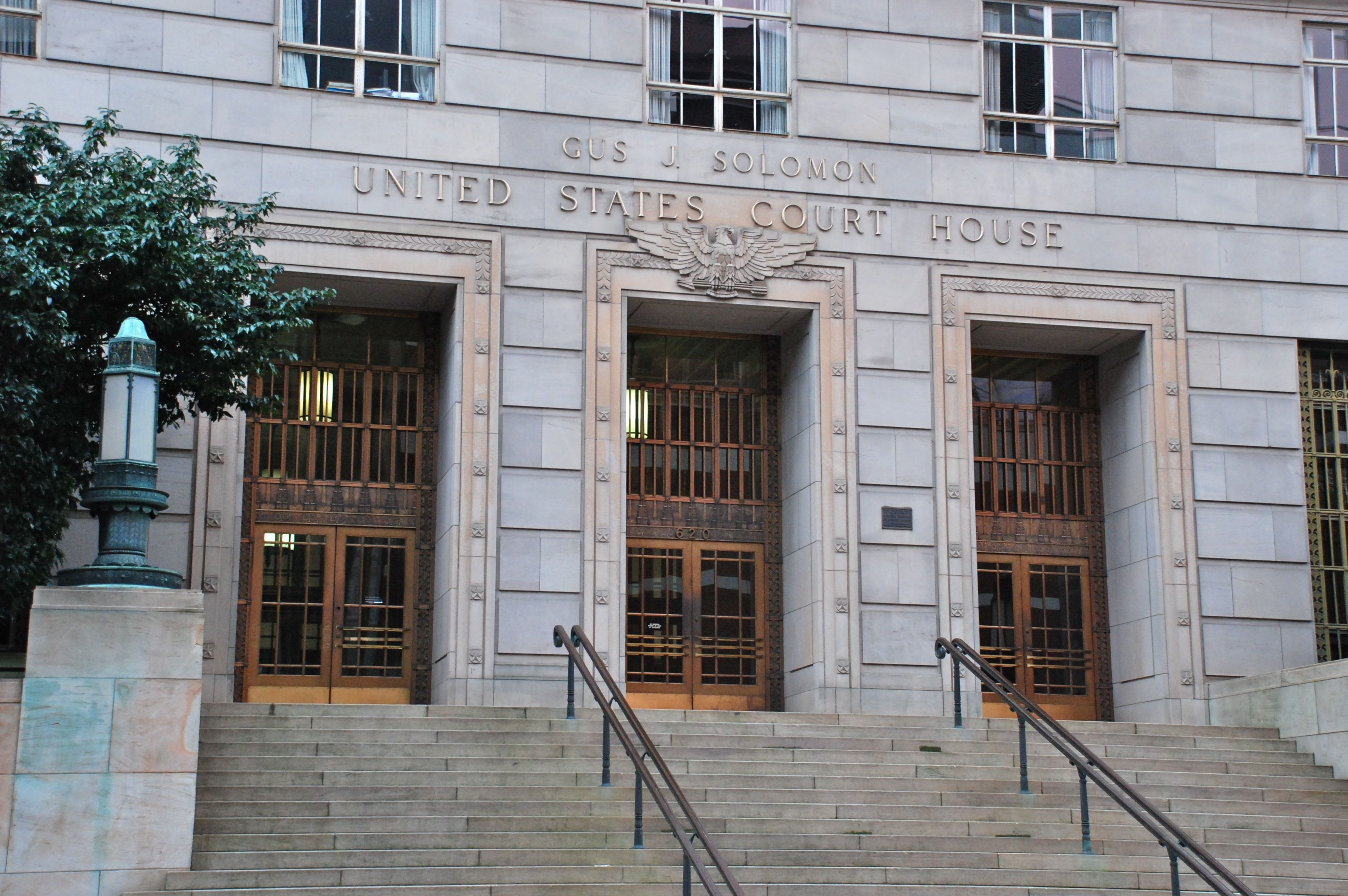 The main entrance, on Southwest Main Street, of the Gus J. Solomon United States Courthouse, in Portland, Oregon. Built in 1932–33, the building is listed on the U.S. National Register of Historic Places. More images